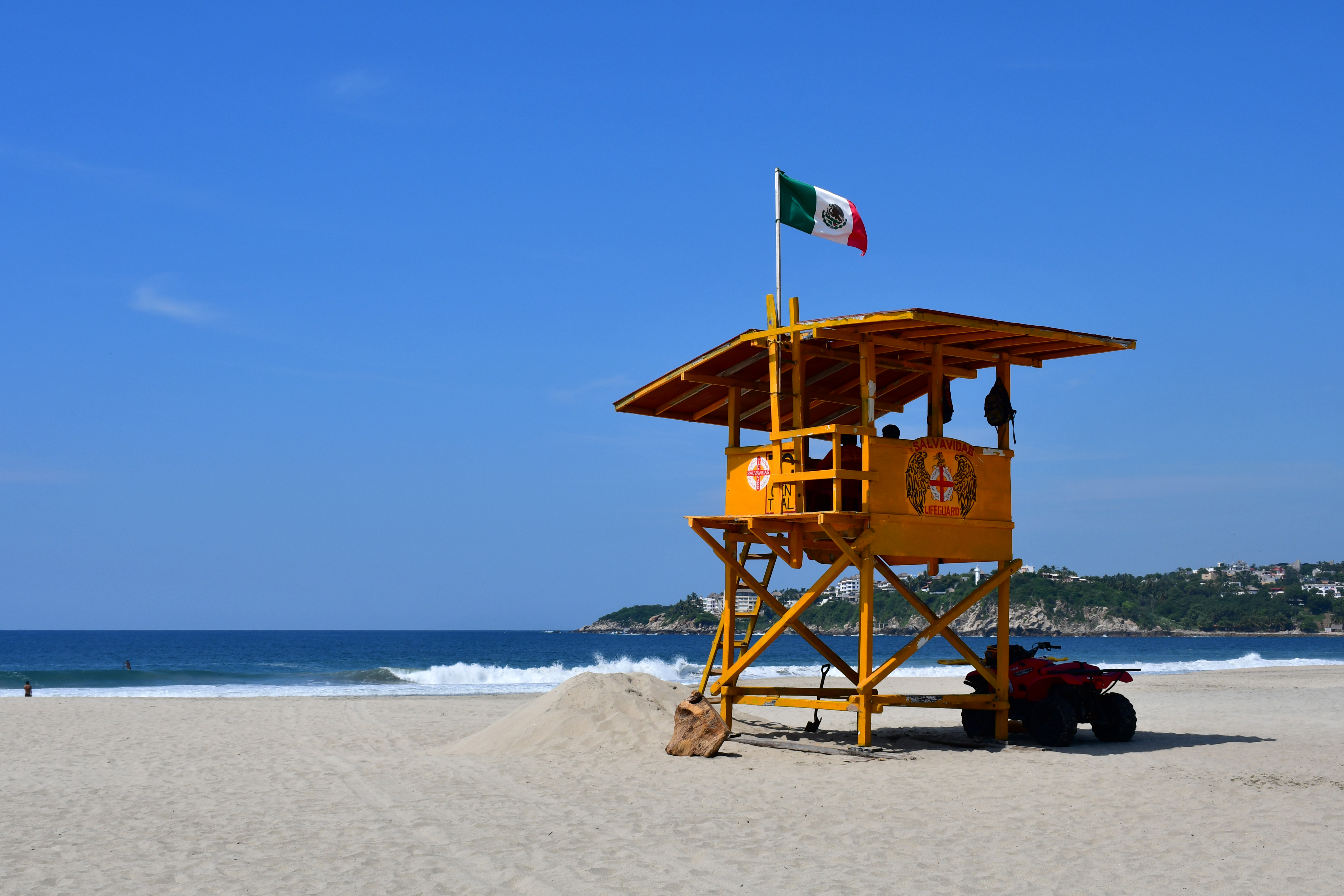 Lifeguard house at Playa Zicatela (Oaxaca, Mexico).